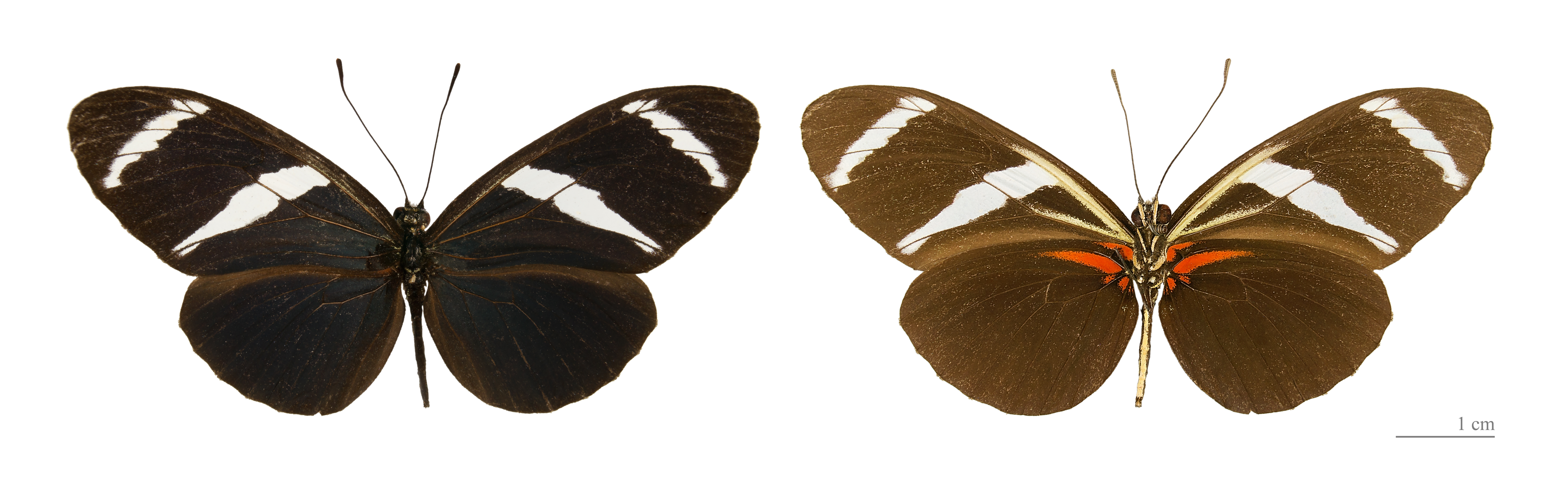 Heliconius antiochus - Two views of same specimen